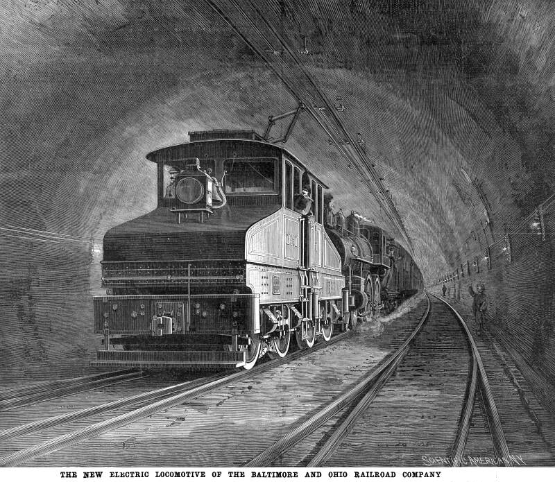 Electric locomotive coupled to a steam locomotive for passage through tunnels on the Baltimore Belt Line, to reduce nuisance from smoke and steam